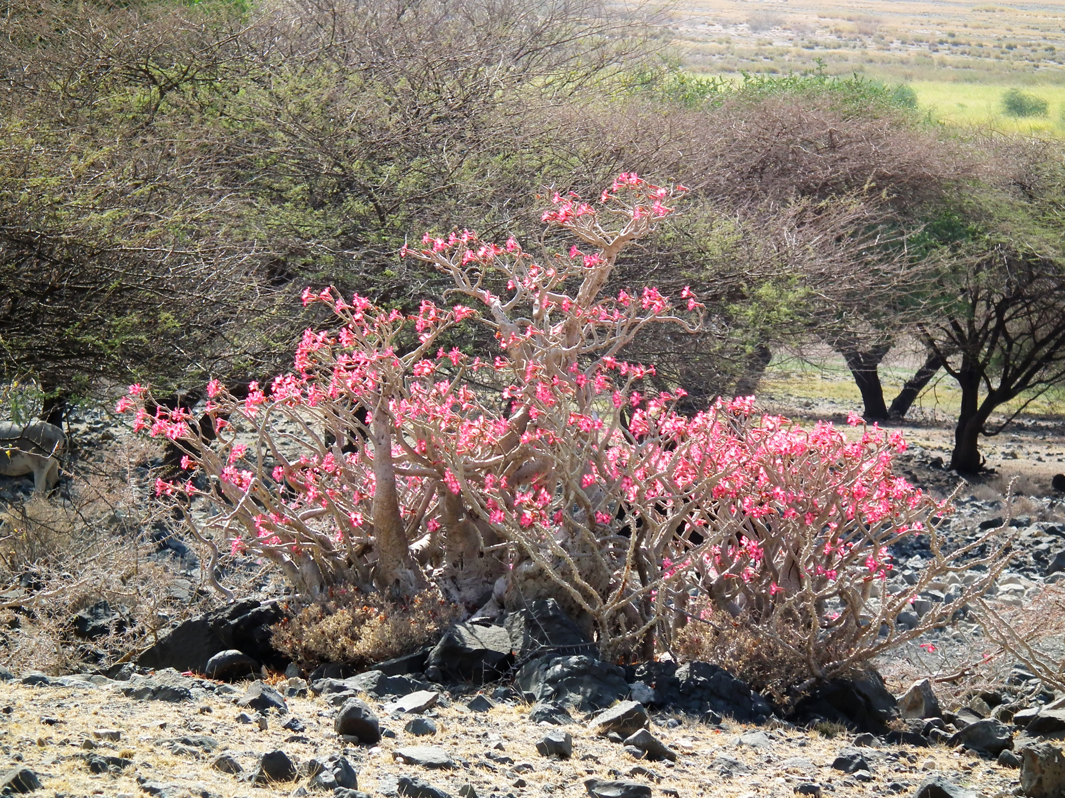 Desert rose, Adenium obesum in Tanzania